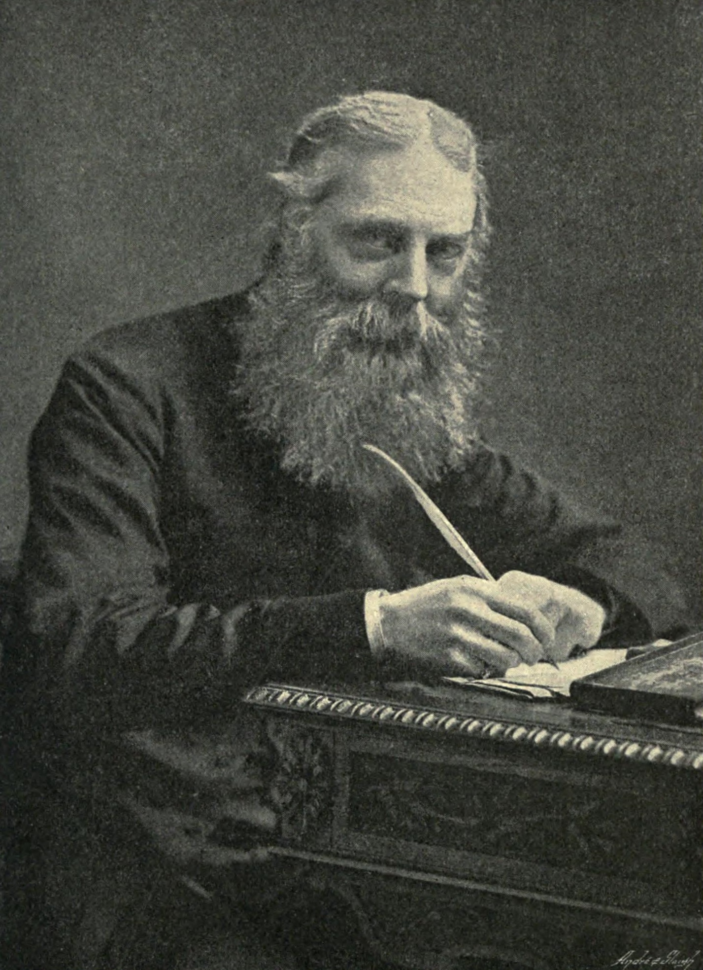 Portrait of Walter William Skeat